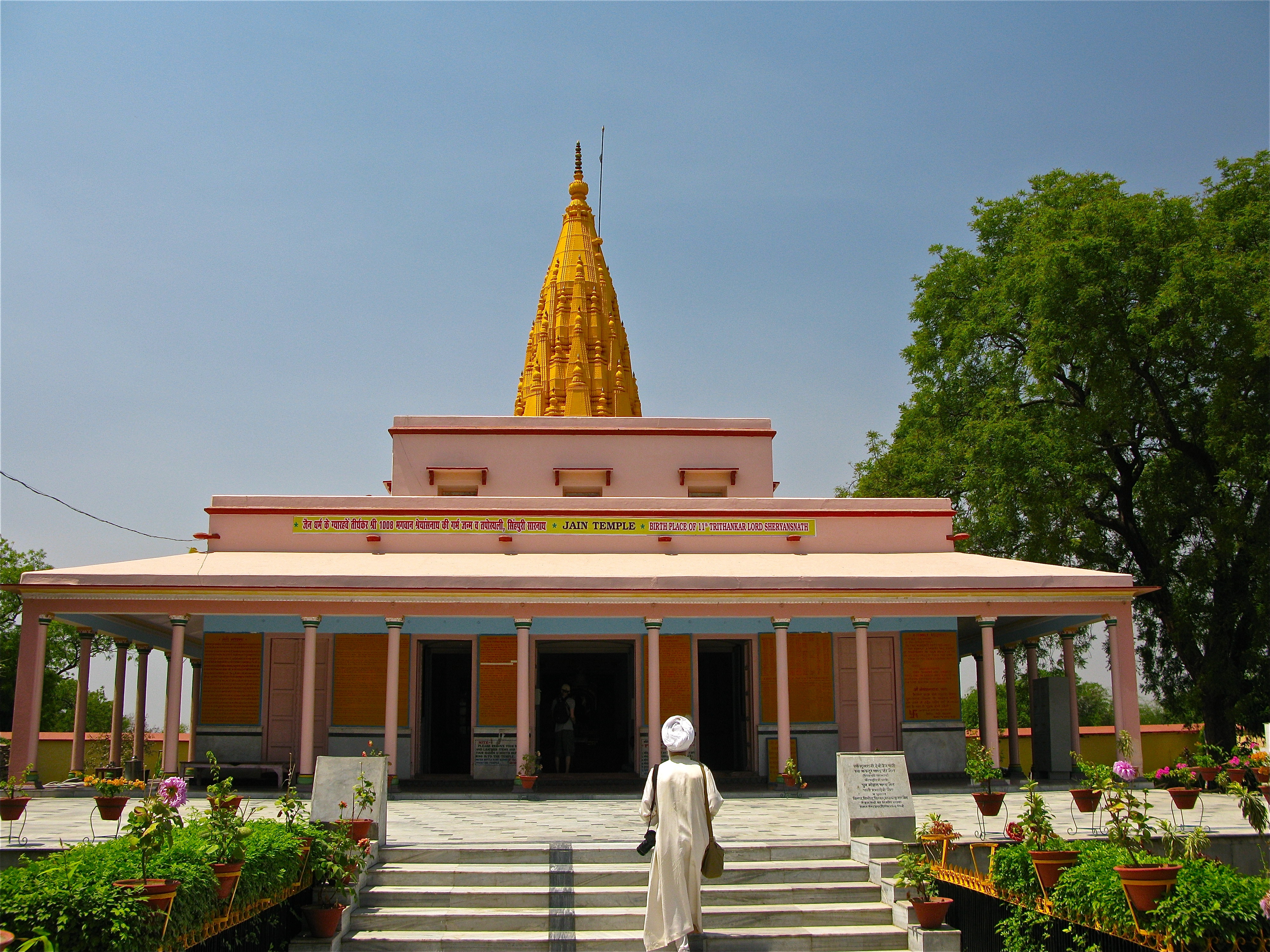 Jain Temple dedicated to Shreyansanath was the eleventh Jain Tirthankar, Sarnath.